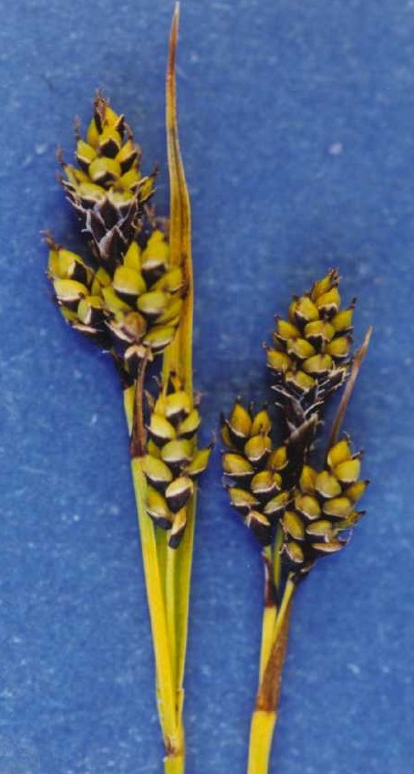 Carex norvegica from Hurd, E.G., N.L. Shaw, J. Mastrogiuseppe, L.C. Smithman, and S. Goodrich. 1998. Field guide to Intermountain sedges. General Technical Report RMS-GTR-10. USDA Forest Service, RMRS, Ogden. Courtesy of USDA FS RMRS Boise Aquatic Sciences Lab.